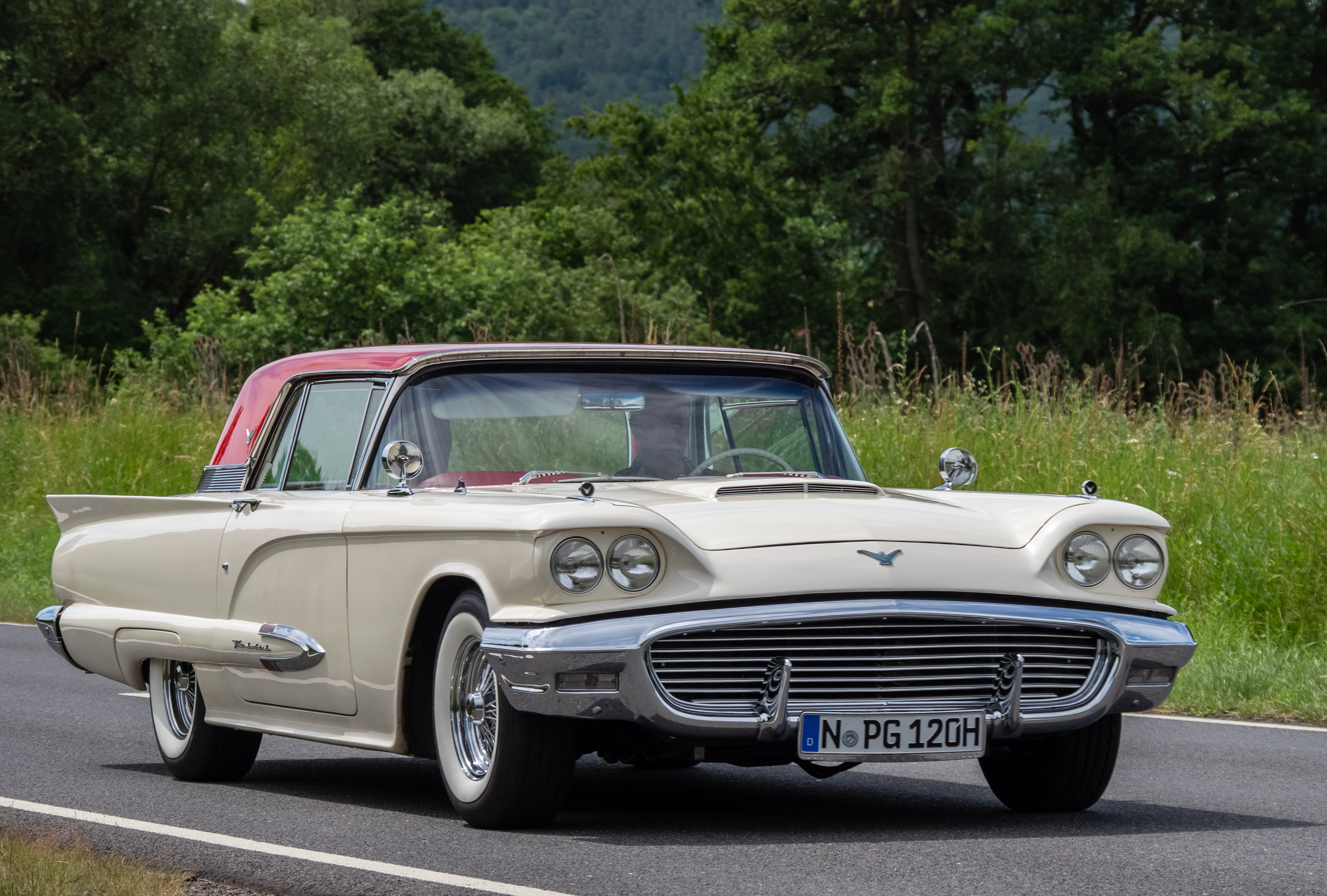 Ford Thunderbird 1960 at the Oldtimer Meeting Ebern